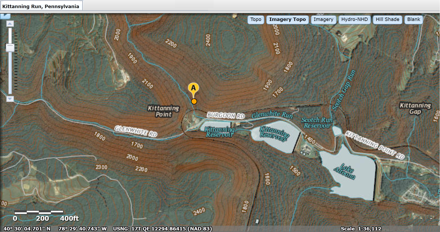 MIxed Mode View, topology and Satellite terrain USGS National Map viewer showing Kittanning Run, Pennsylvania—one creek among several creating the gaps in the Allegheny—that is in the Allegheny Front. -- The bubble location shown is along the westbound railroad between Altoona —the tunnels at under the drainage divides at Gallitzin & Tunnelhill.